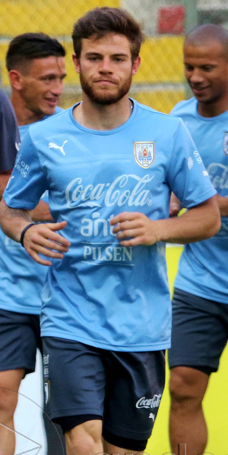 Guayaquil, 09 de nov. del 2015 (Andes).-El primer grupo de jugadores de la selección de Uruguay que llegó a Ecuador realizó una práctica en el estadio Monumental.Foto:César Muñoz/Andes Nahitan Nández